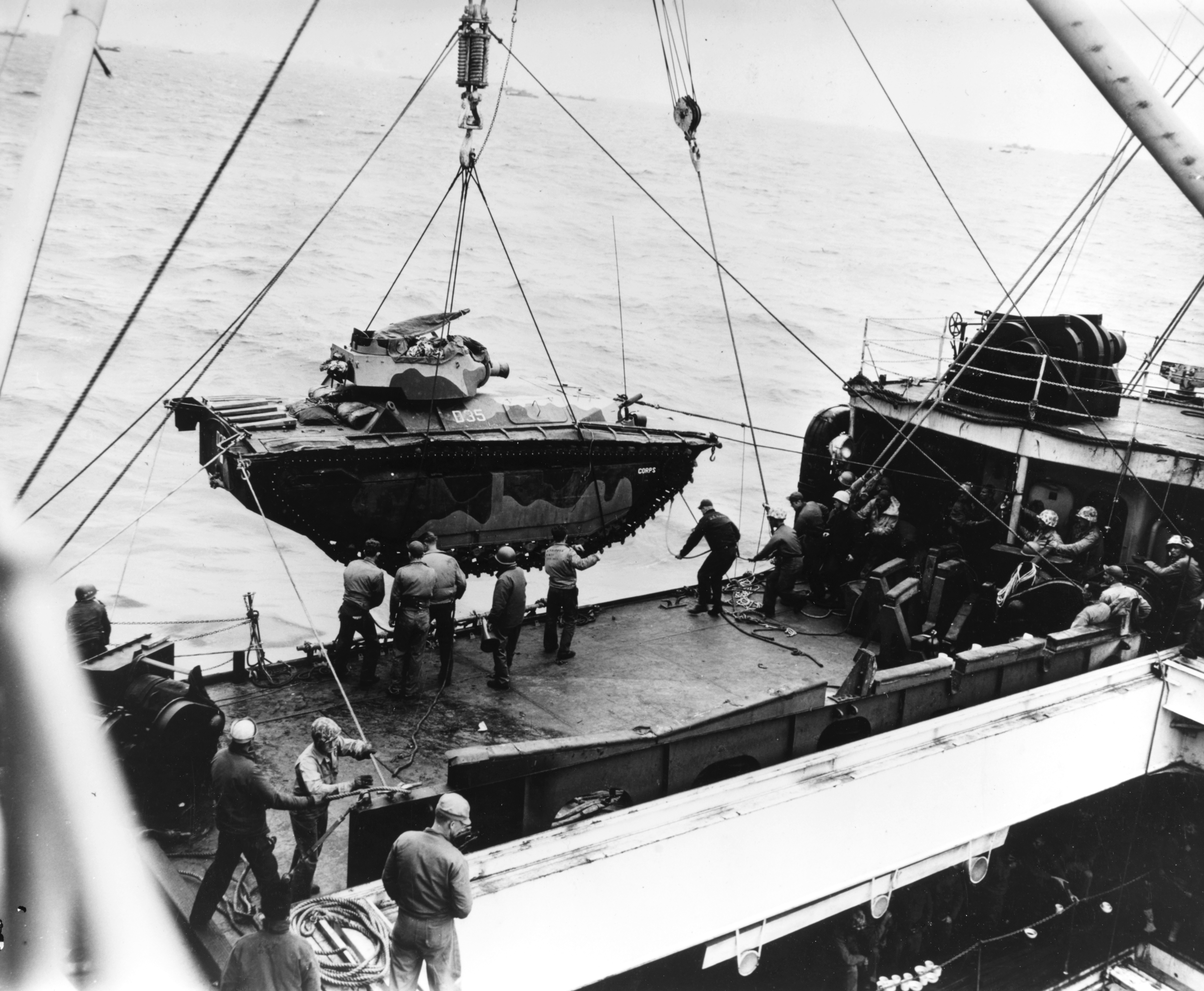 A LVT(A)-4 amphibious tractor is lowered over the side of the U.S. Navy attack transport USS Hansford (APA-106) off Iwo Jima, circa 19 February 1945. Note the camouflage paint on the LVT, which is marked "D35" and carries the nickname "Corps".